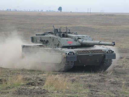 Carro armato ariete, italian army